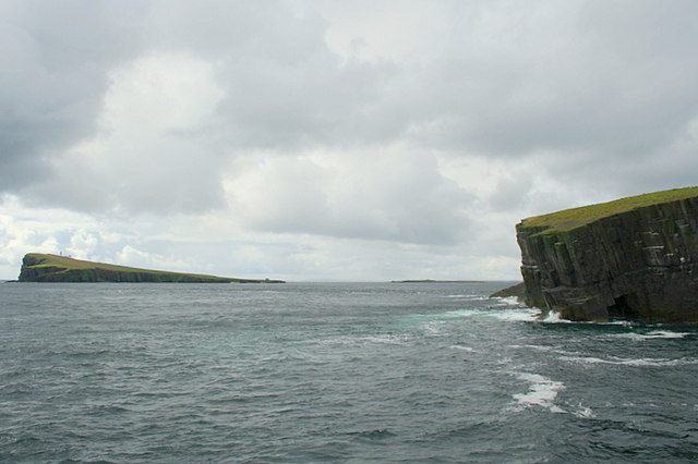 The Horse of Copinsay looking over to Copinsay, Orkney Islands. Southwards from the eastern edge of the Horse of Copinsay. You can see the Copinsay lighthouse on the high ground of that island in the distance.